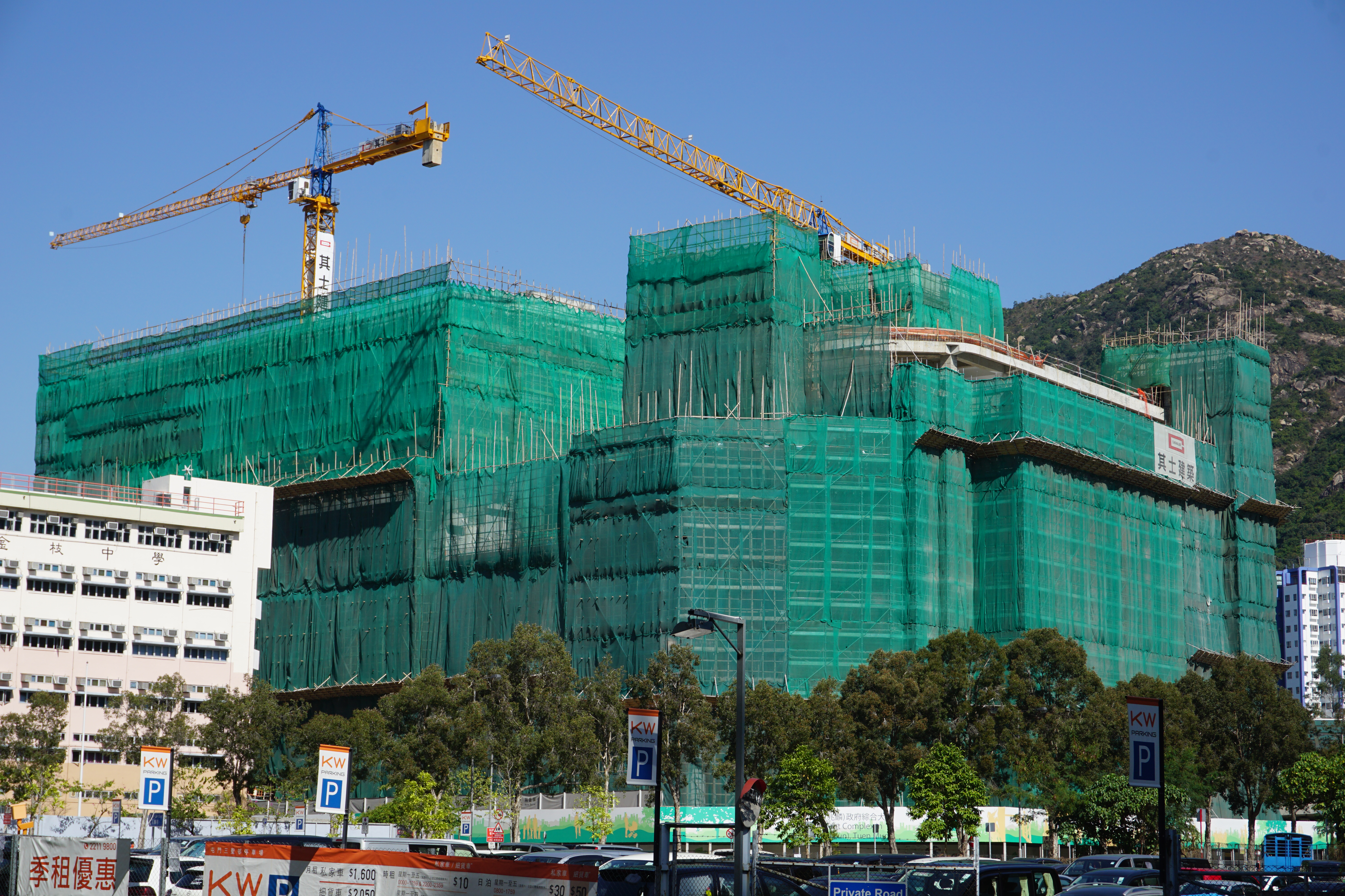 Siu Lun Government Complex in Tuen Mun, Hong Kong.